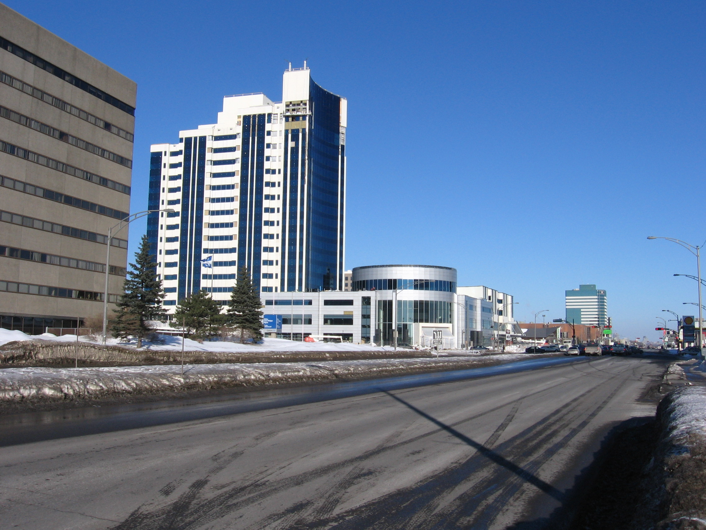 New Sainte-Foy